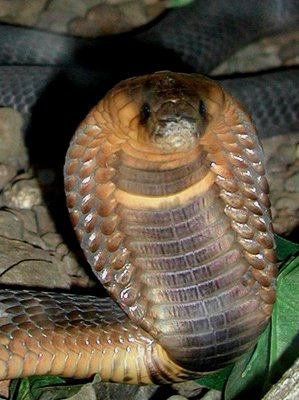 An Egyptian cobra (Naja haje).